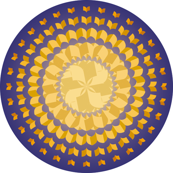 the emblem of the National Library of Armenia